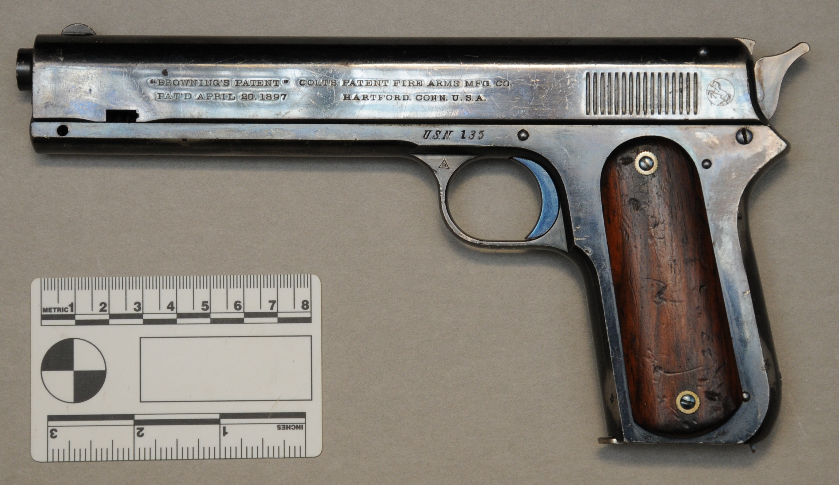 Pistol Colt Cal 38 M1900 Steel, Walnut The pistol has the serial number 135. 3,500 of these pistols were made in total. This is one of only 200 M1900 pistols delivered to the United States Navy. This was also the first production automatic pistol by Colt. Collection of Curator Branch: Naval History and Heritage Command.